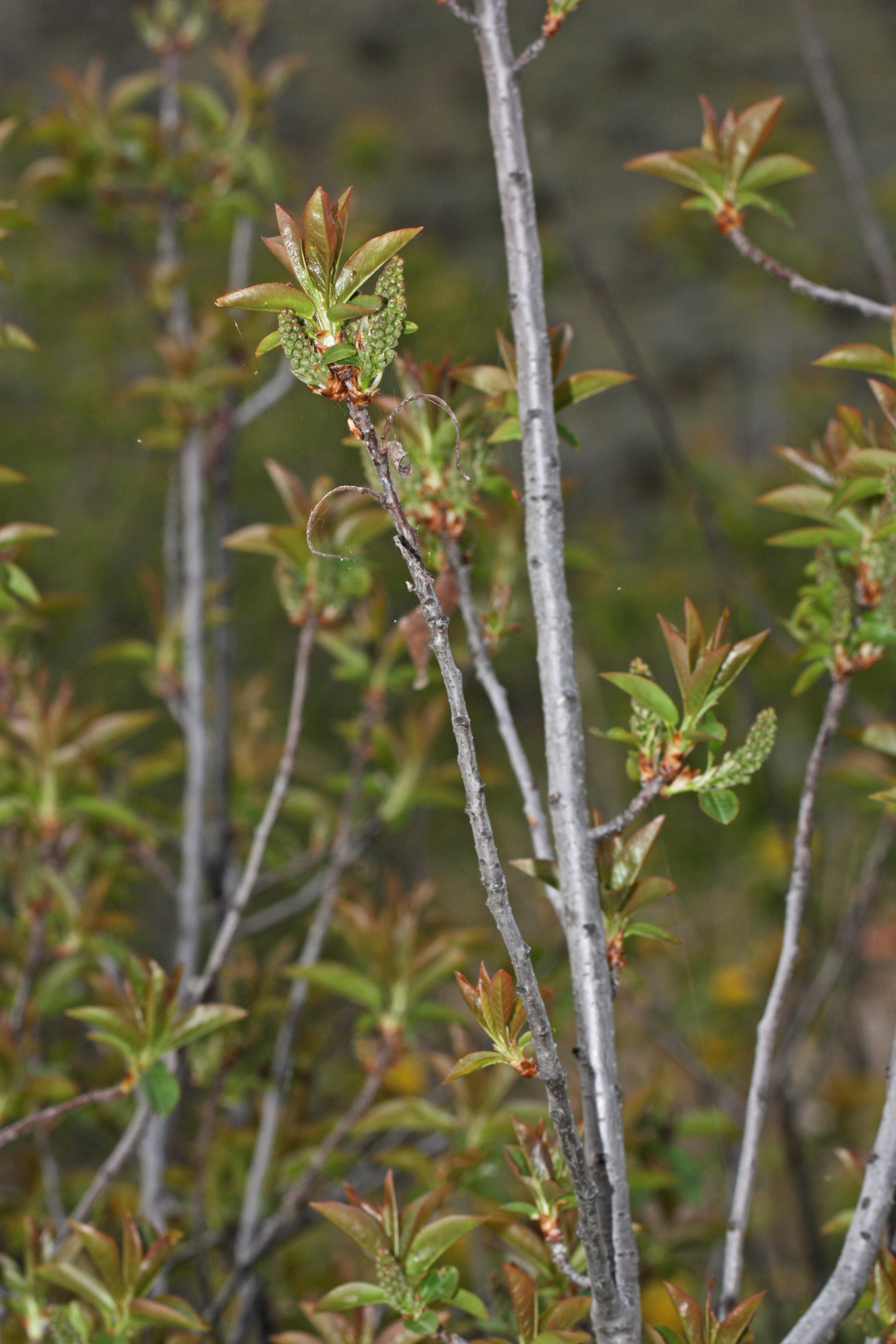 Chokecherry